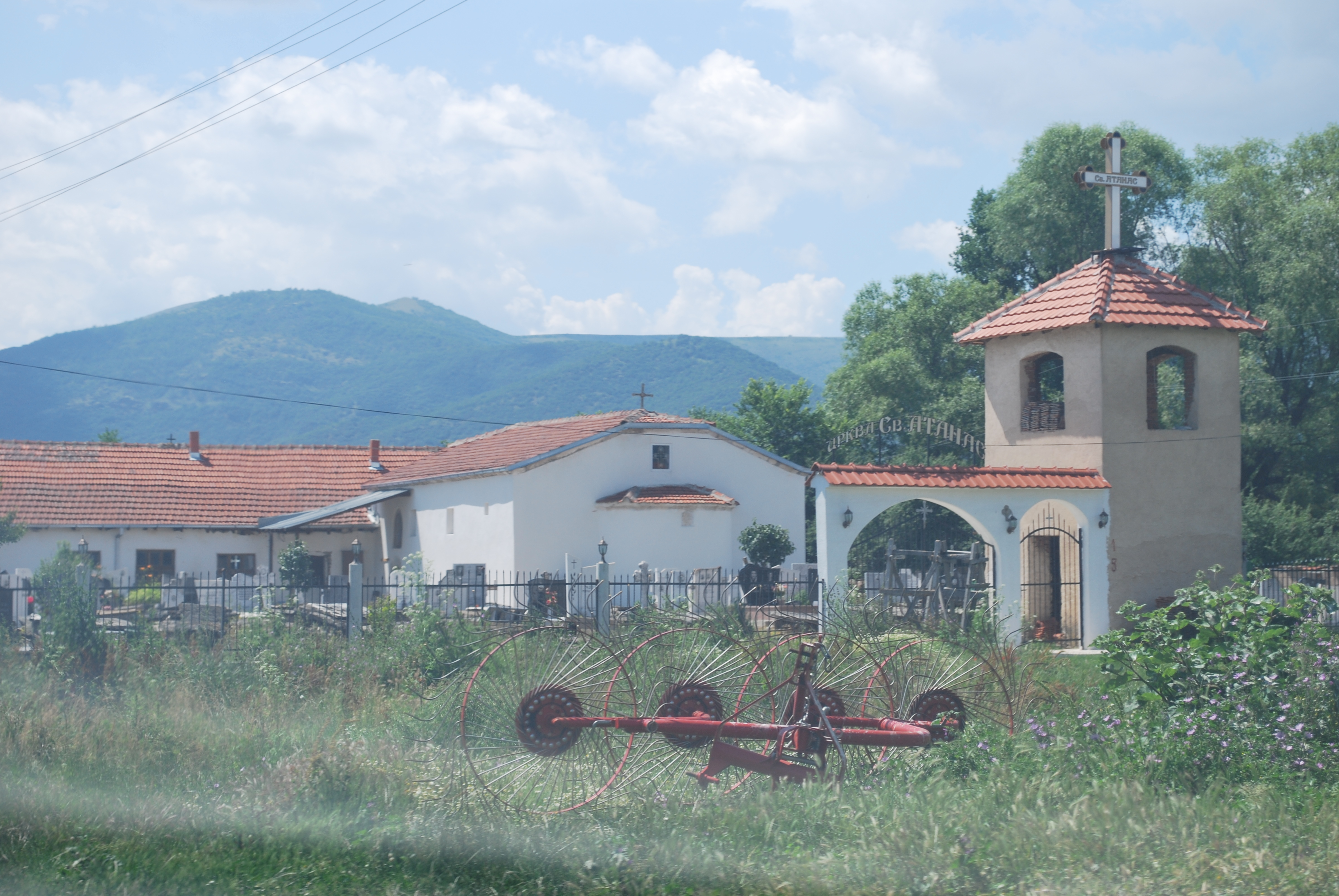 Sekirci near Prilep, Macedonia